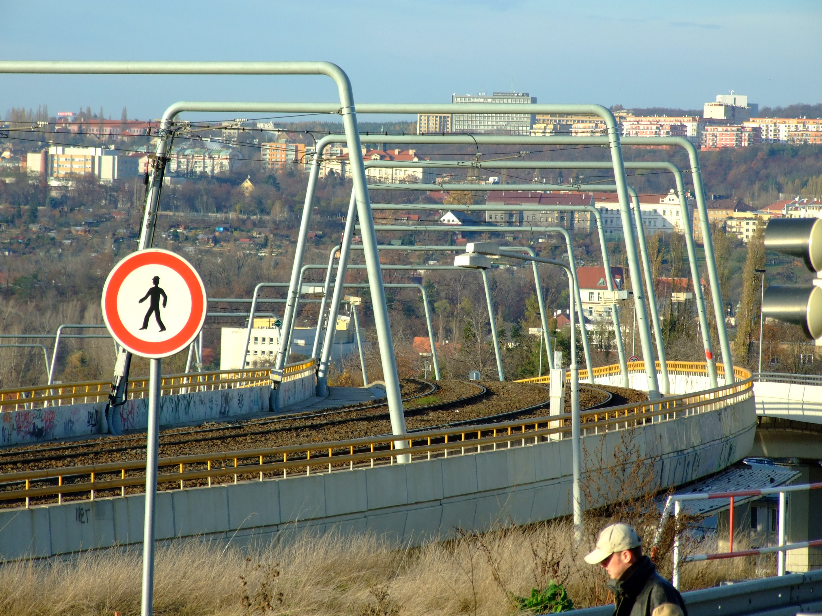 Tram track Ohrada-Palmovka, Prauge, CZhelp